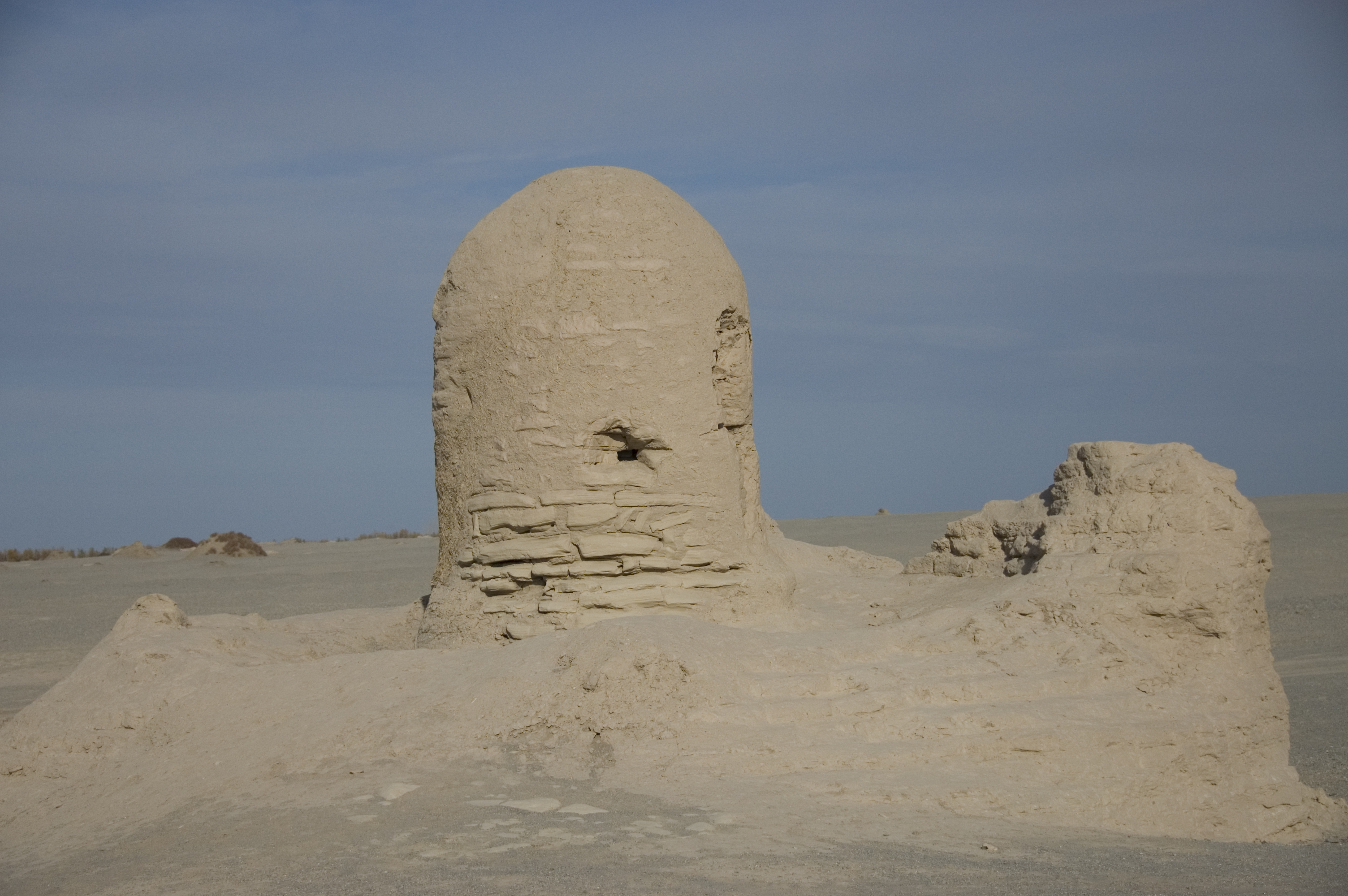 M.III. stupa at Miran from the west, November 2008.